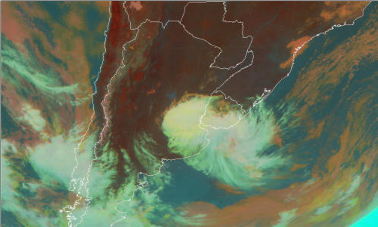 Santa Rosa storm